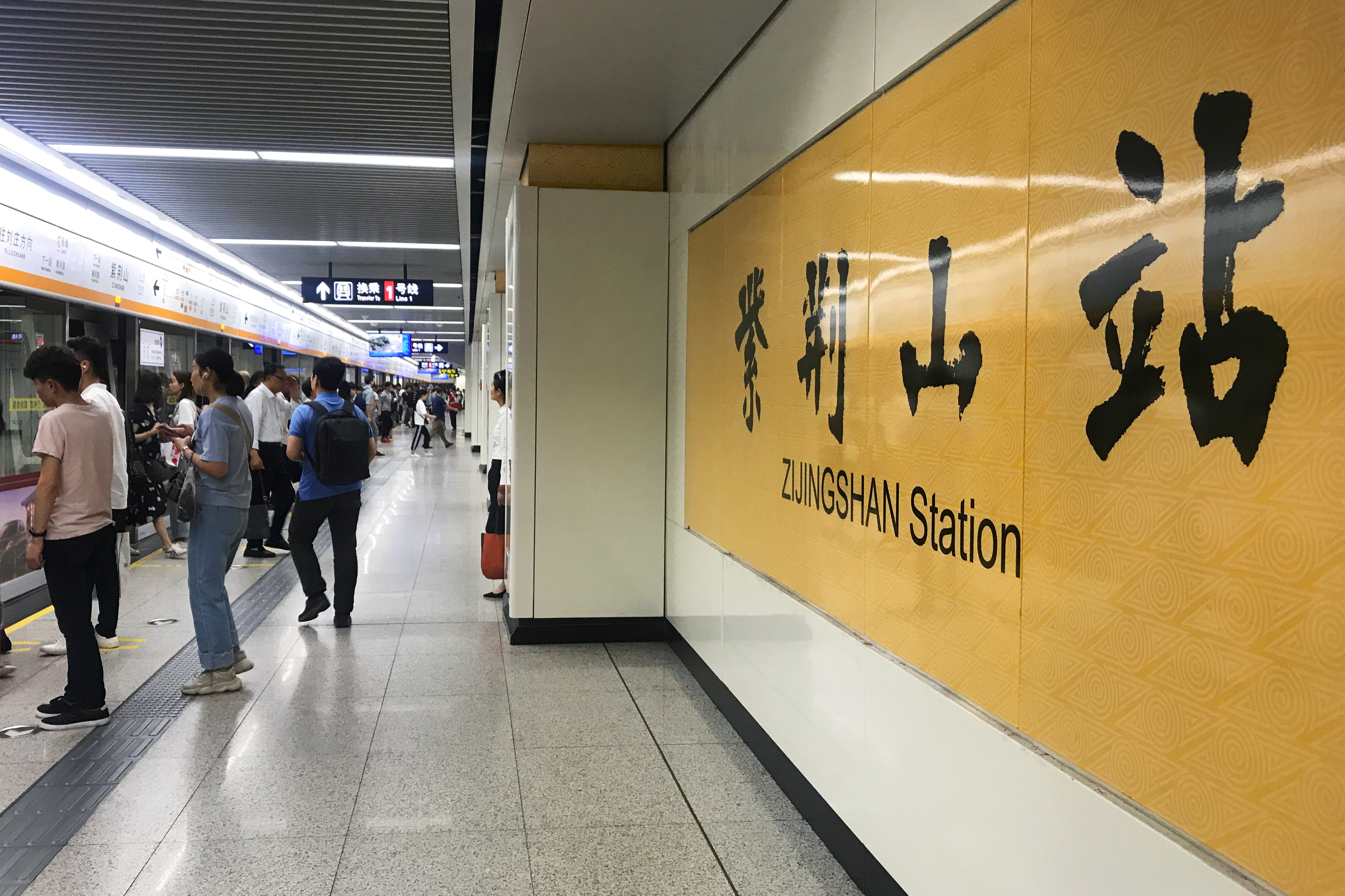 Platform of Line 2 at Zijingshan Station